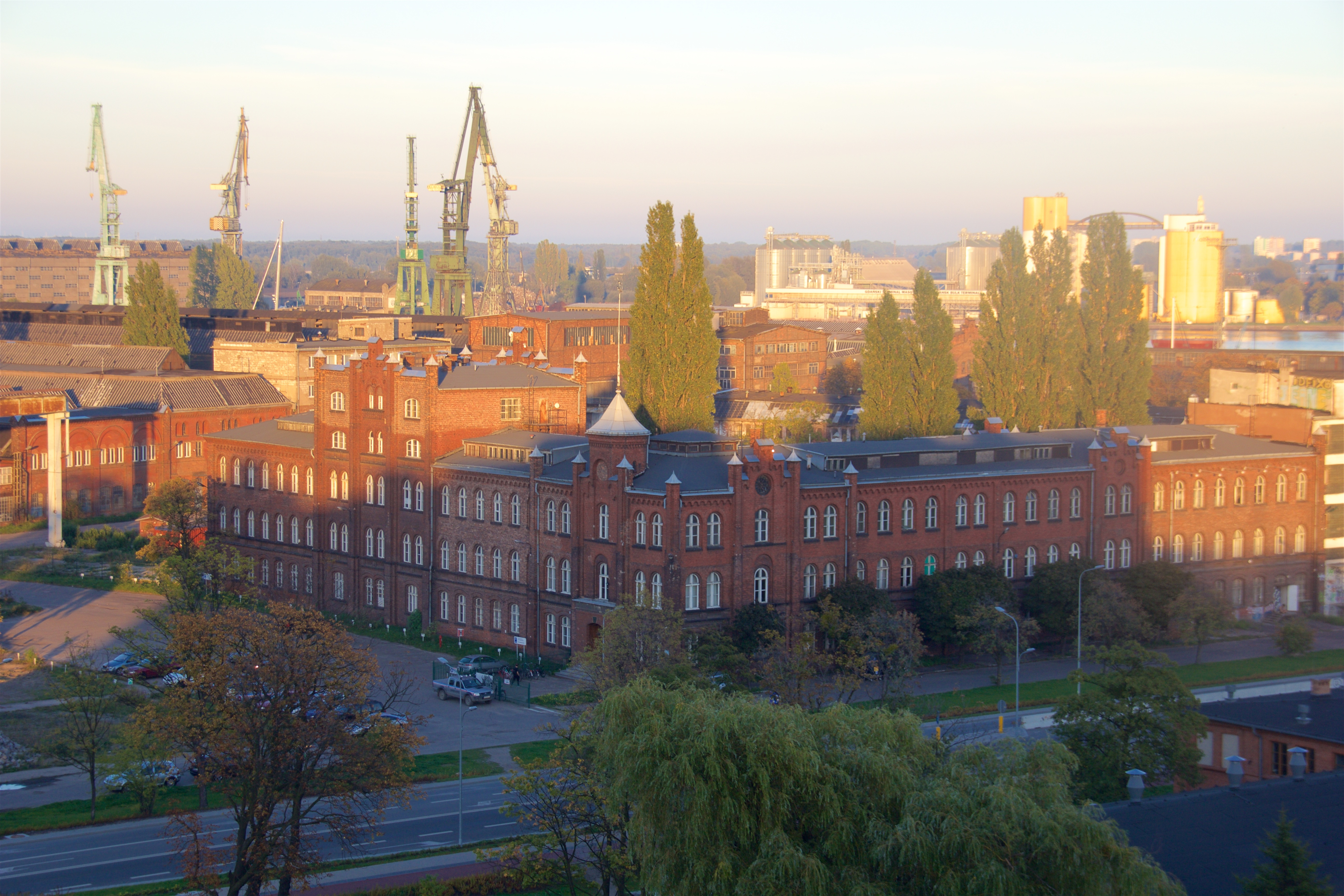 Gdańsk Shipyard, Gdańsk, Poland.